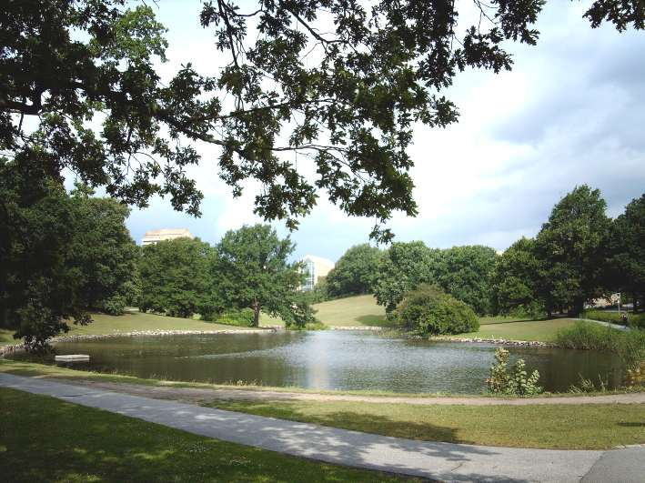 One of the lakes of the university of Aarhus